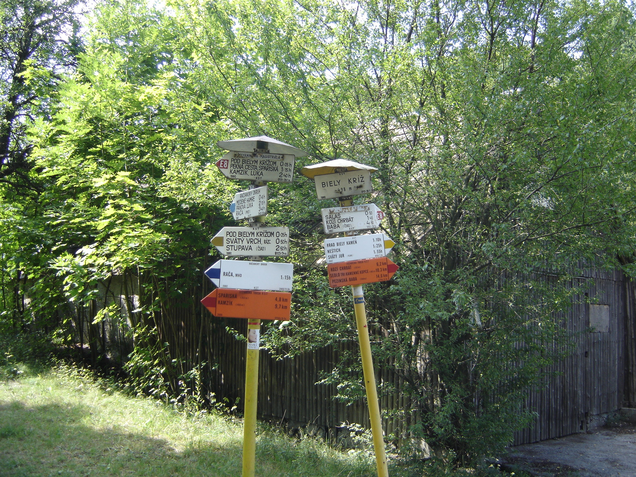 Biely kriz, Little Carpathians